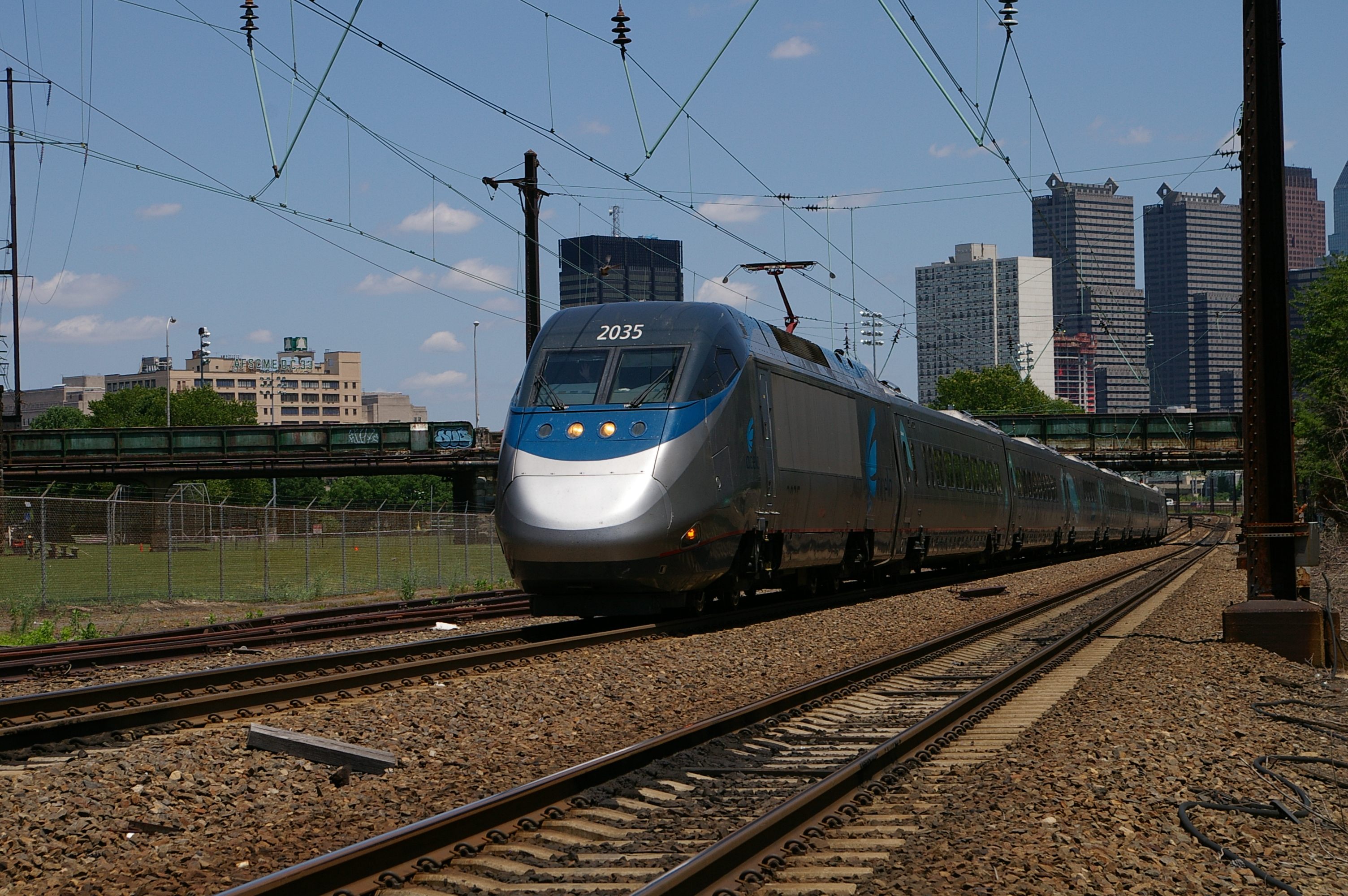 An Acela Express train led by power car #2035 near Philadelphia, PA